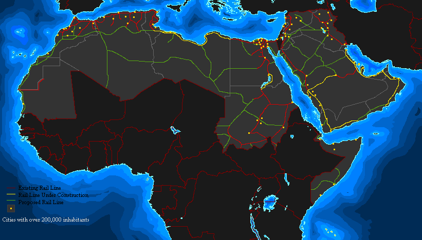 Rail communication in the Arab League, including existing and proposed lines.